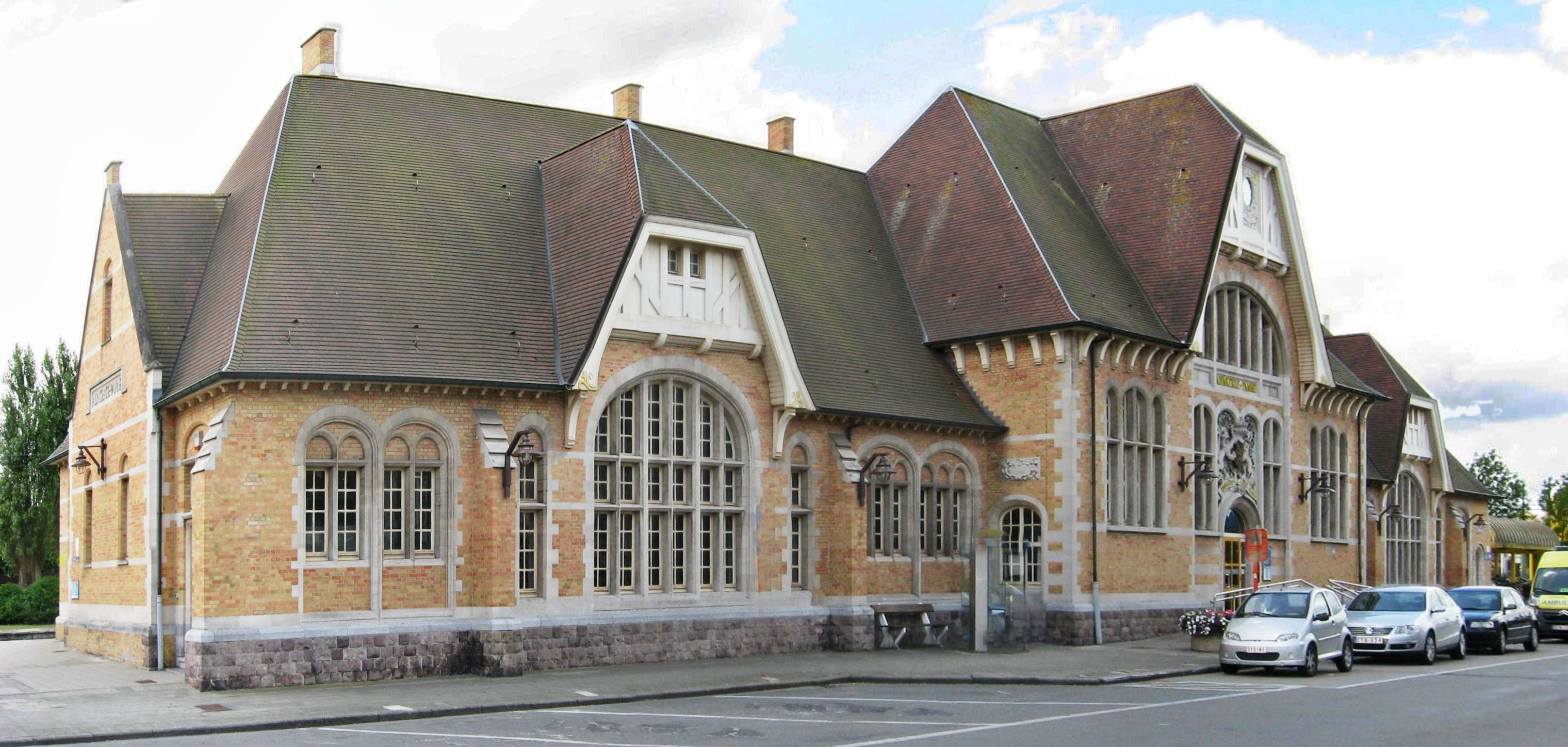 Railway station in Adinkerke